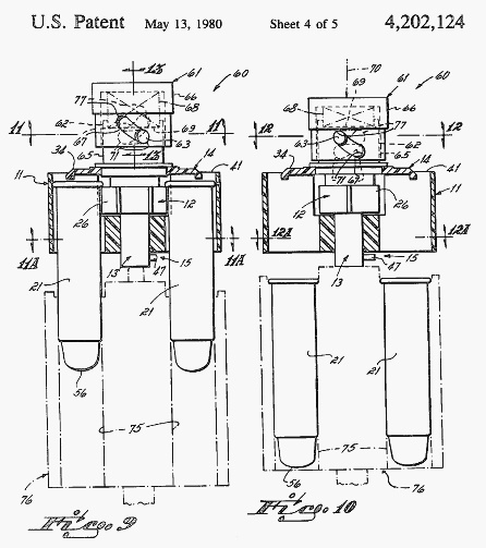 Image from patent 4,202,124 for a revolver speedloader. This design is used by HKS speedloaders that automatically release the cartridges when the speedloader is pressed into the cylinder of the revolver.